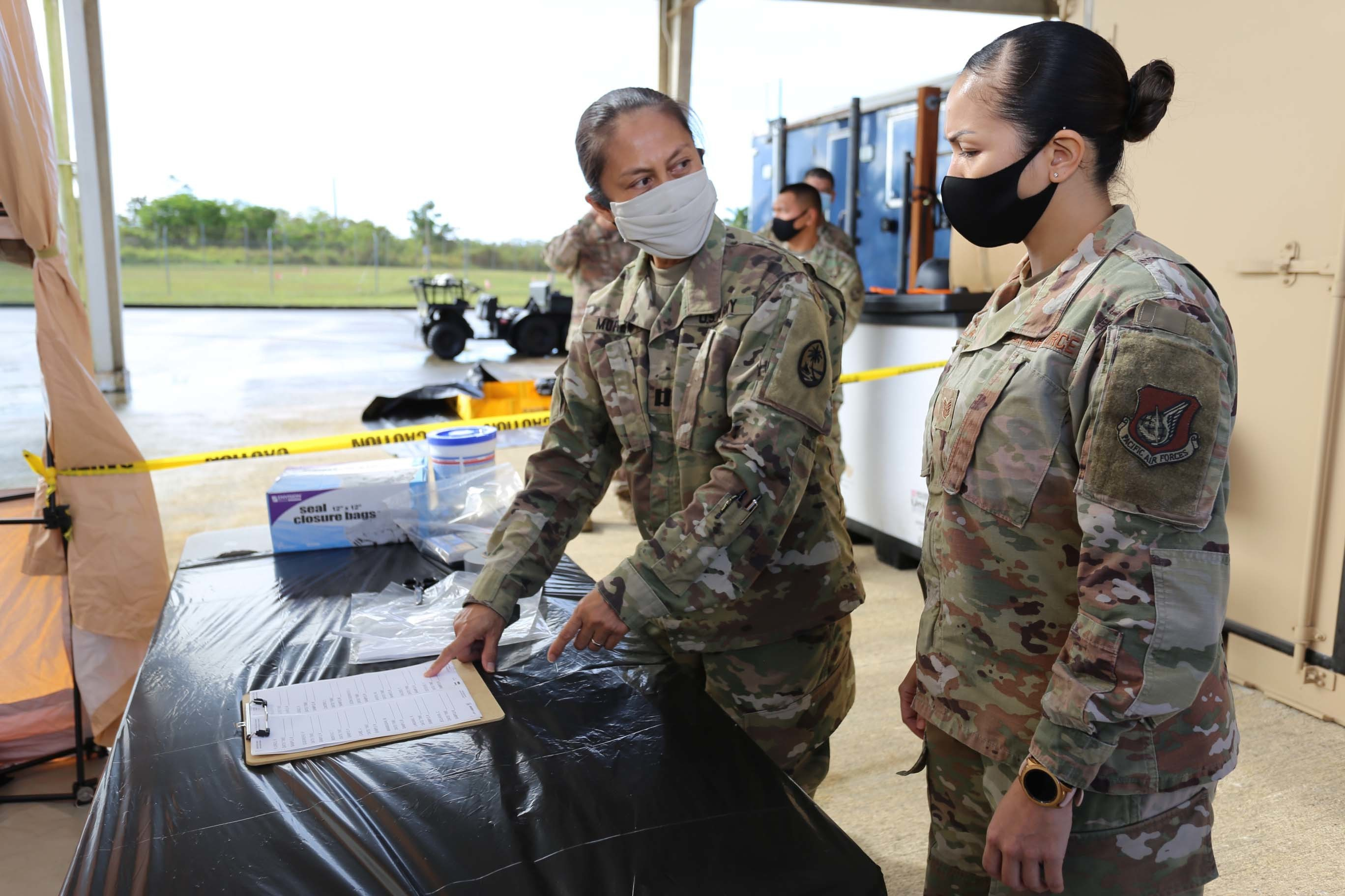 Capt. Theresa Moreno, 94th Civil Support Team, Guam National Guard, left, explains administrative procedures for testing COVID-19 patients to Sgt. First Class Jolina Cabe at the GUNG Barrigada Readiness Center on April 23, 2020. The GUNG continues to support the government of Guam in its effort to combat the COVID-19 pandemic. (U.S. Army National Guard photo by JoAnna Delfin)